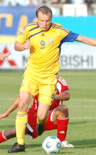 Oleh Husyev